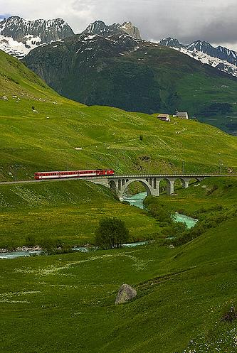 Train in Urseren valley, near Andermatt